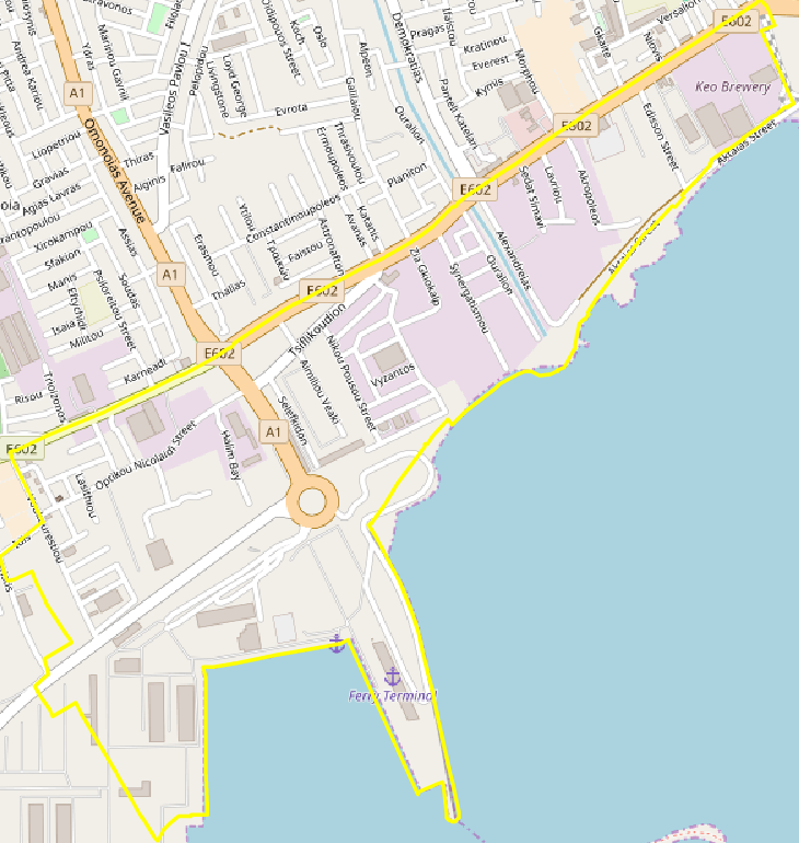 Map of Tsiflikoudia.